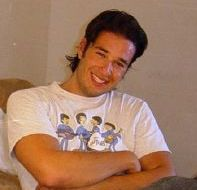 Brazilian actor Sergio Marone.